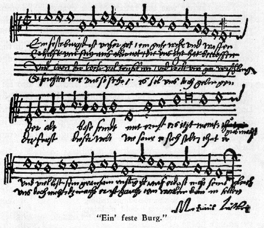 music sheet of Martin Luther's Ein' feste burg